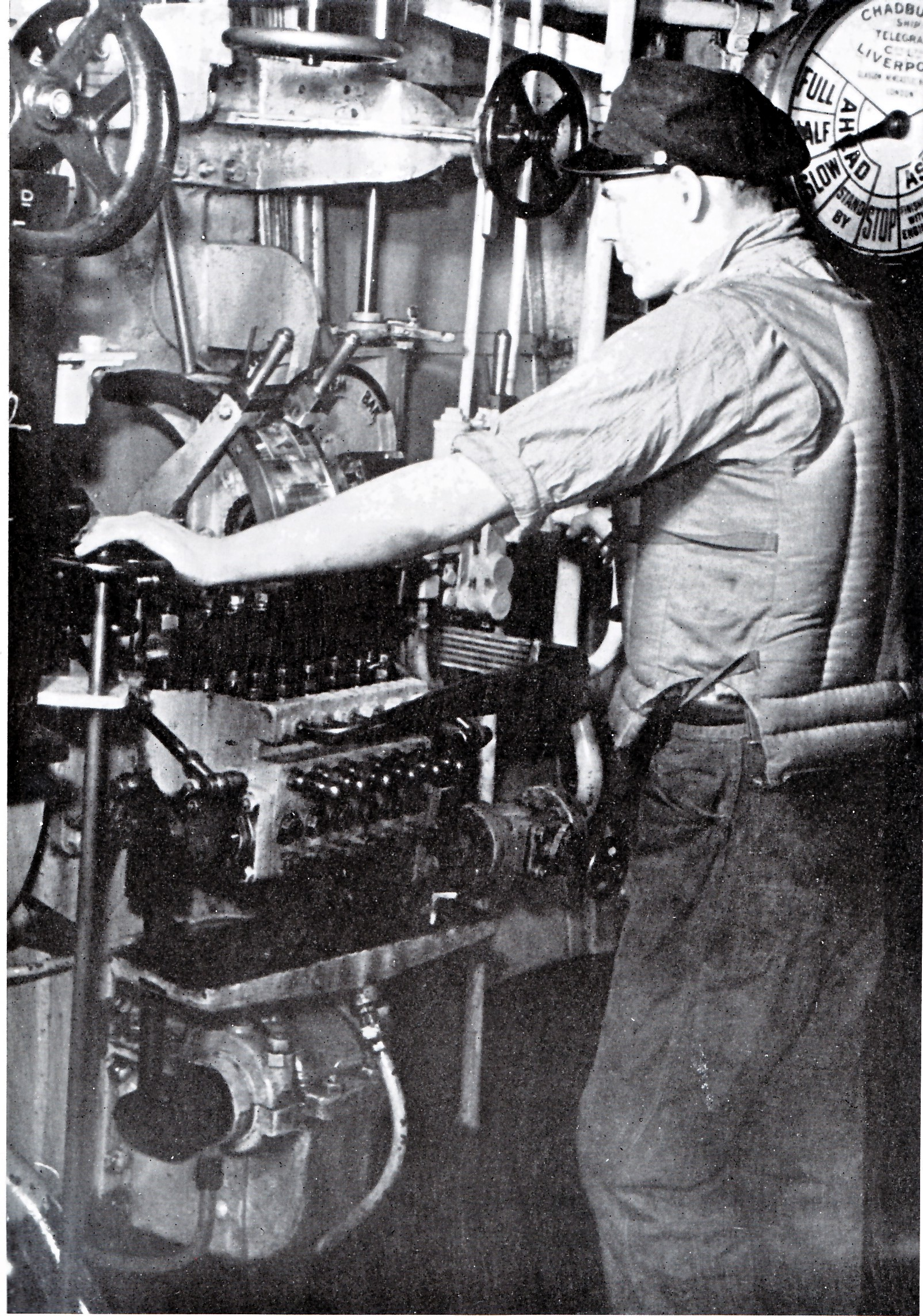 Chief on a Norwegian merchant ship during World War II.